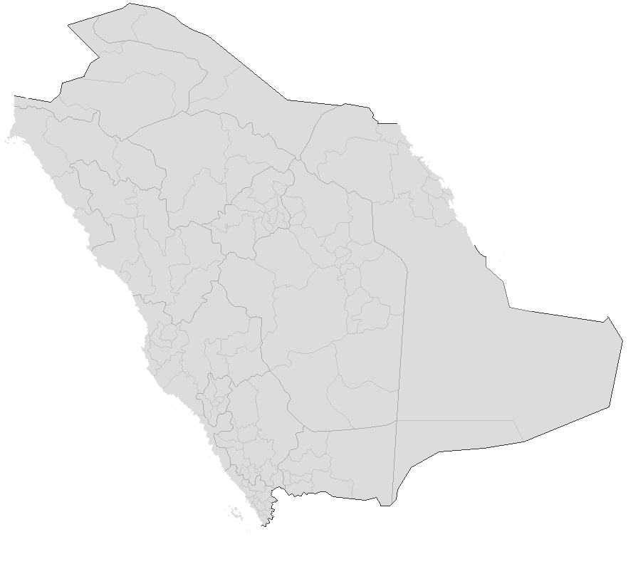 The governorates of saudi arabia